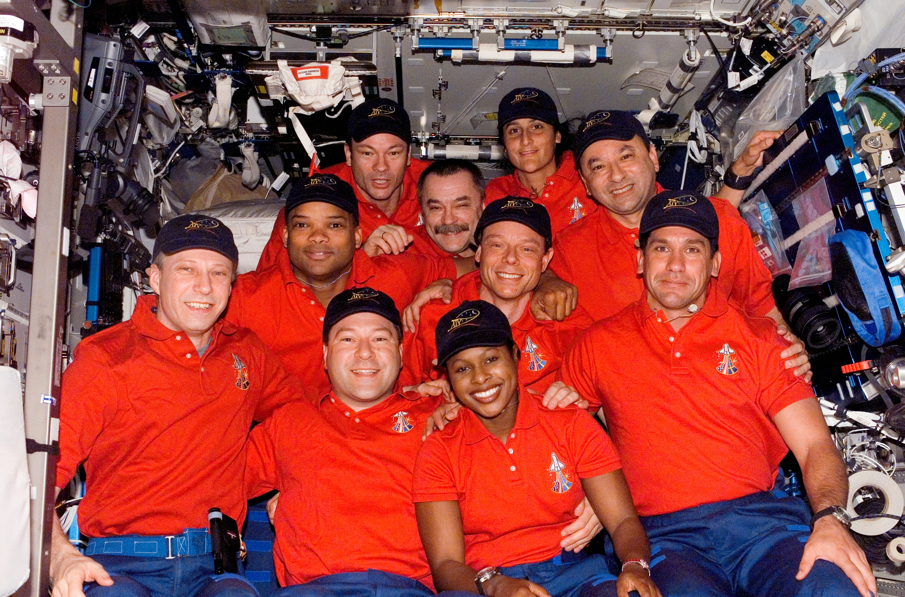 STS-116 Shuttle Mission Imagery The STS-116 and Expedition 14 crewmembers gather for a group portrait during a joint crew press conference in the Destiny laboratory of the International Space Station while Space Shuttle Discovery was docked with the station. From the left (front row) are European Space Agency (ESA) astronaut Thomas Reiter, Nicholas J. M. Patrick, Joan E. Higginbotham, all STS-116 mission specialists; and William A. (Bill) Oefelein, STS-116 pilot. From the left (center row) are astronaut Robert L. Curbeam, Jr., European Space Agency (ESA) astronaut Christer Fuglesang, STS-116 mission specialists; and astronaut Mark L. Polansky, STS-116 commander. From the left (back row) are astronaut Michael E. Lopez-Alegria, Expedition 14 commander and NASA space station science officer; cosmonaut Mikhail Tyurin, Expedition 14 flight engineer representing Russia's Federal Space Agency; and astronaut Sunita L. Williams, Expedition 14 flight engineer. Shortly after the two spacecraft docked on Dec. 11, Williams became a member of the station crew. At the same time, Reiter became a Discovery crewmember for his ride home, completing about six months in space.